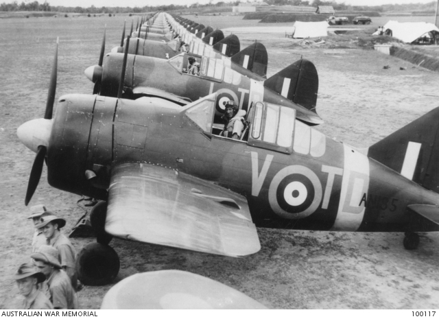 Singapore, Malaya. c. 1941-11. A line-up of RAAF RAF Brewster Buffalo aircraft of 453 squadron on Sembawang airfield.